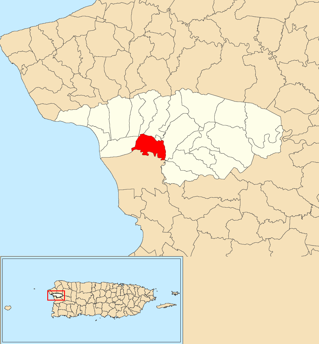 Añasco Arriba, Añasco, Puerto Rico locator map